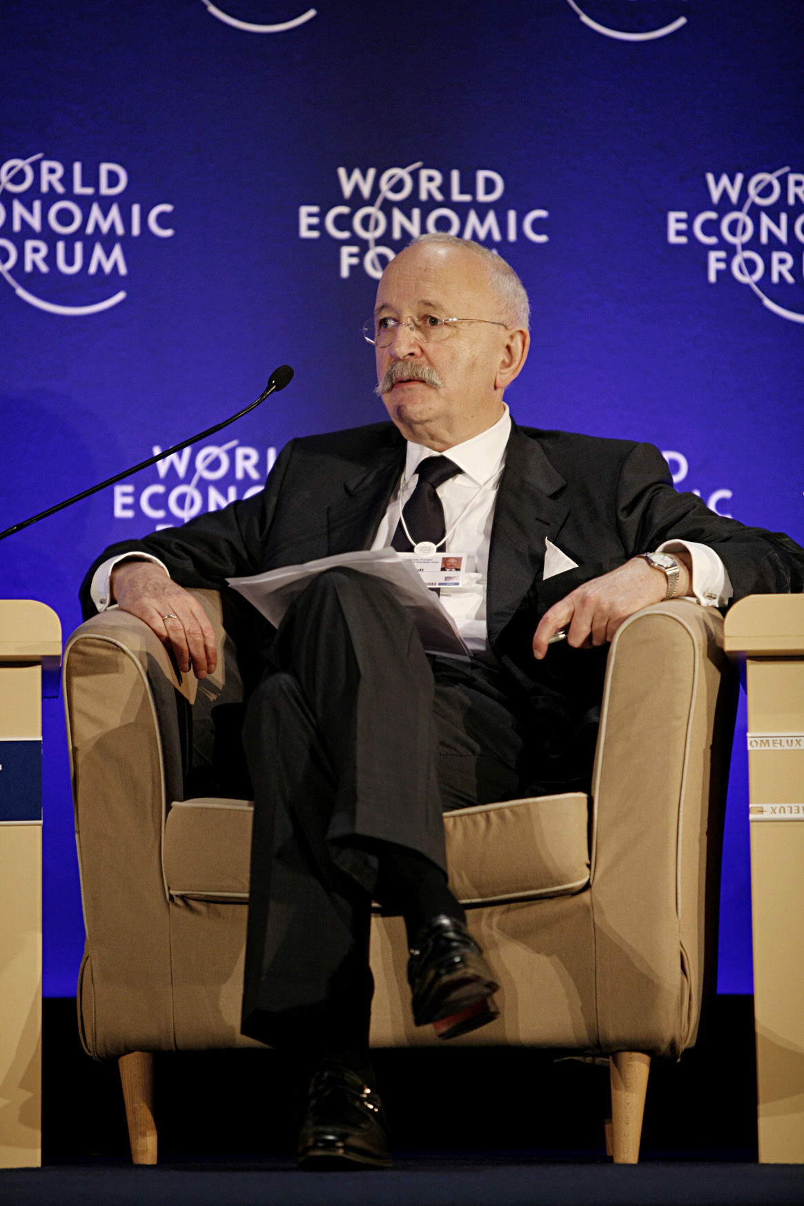 ISTANBUL/TURKEY, 31OCT08 - Victor Halberstadt, Professor of Public Economics, Leiden University, Netherlands during the session "Turkey: Combining Europe and Asia" at the World Economic Forum on Europe and Central Asia in Istanbul, 30 October - 1 November 2008. Copyright World Economic Forum ( by Serkan Eldeleklioglu-Bora Omerogullari-Ozan Atasoy